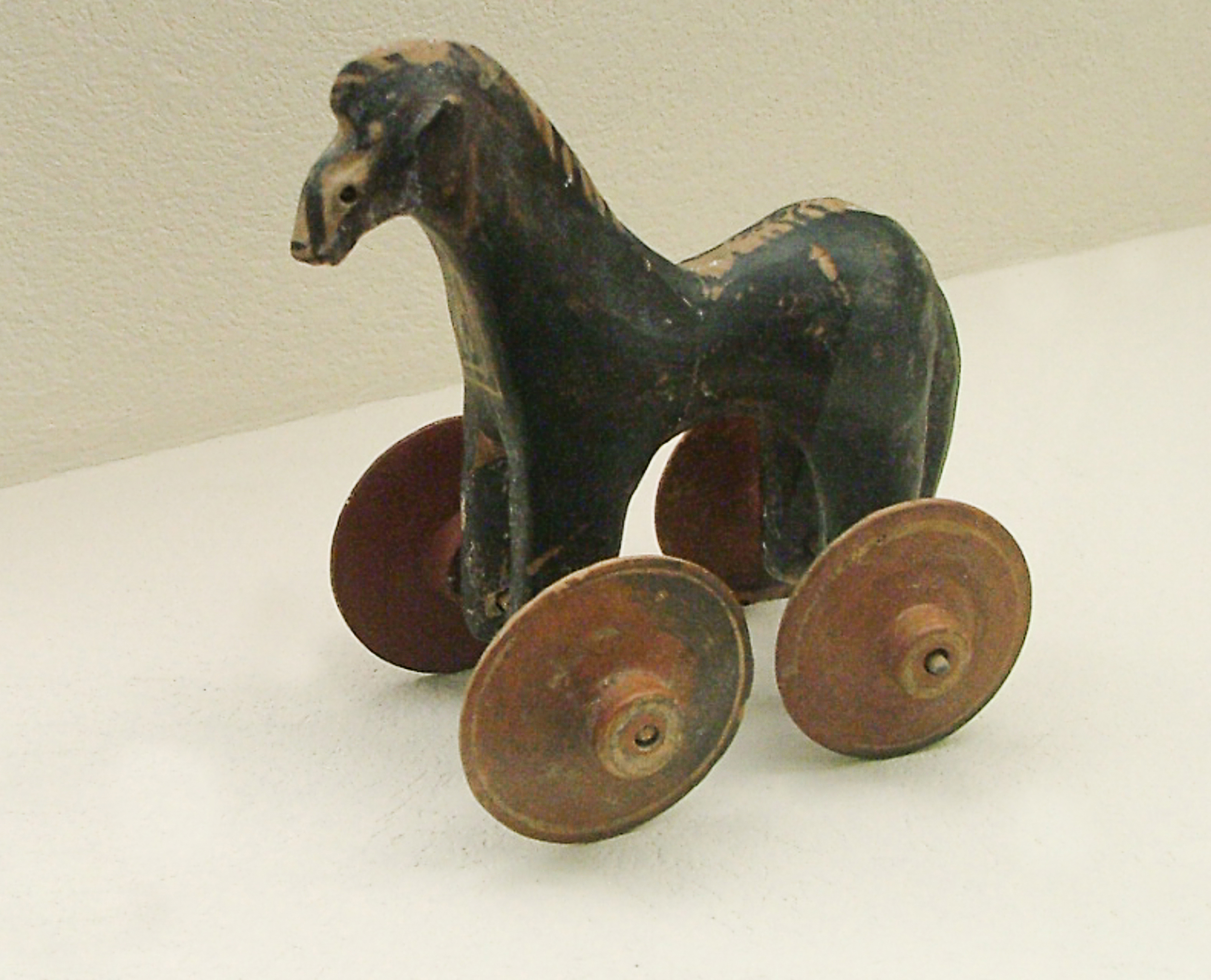 Ancient Greek toy consisting of a little horse on wheels (child's toy). Individual find from a tomb dating from about 950-900 B.C. Kerameikos Archaeological Museum of Athens.